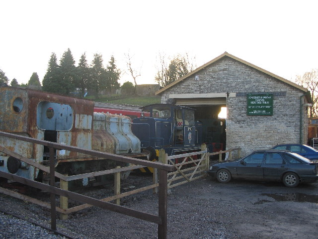 Railway Centre at Midsomer Norton A view looking west to the engine shed at the railway centre at the old Somerset and Dorset Joint Railway station at Midsomer Norton. An old WWII pillbox can be seen on the hill to the left of the shed roof.